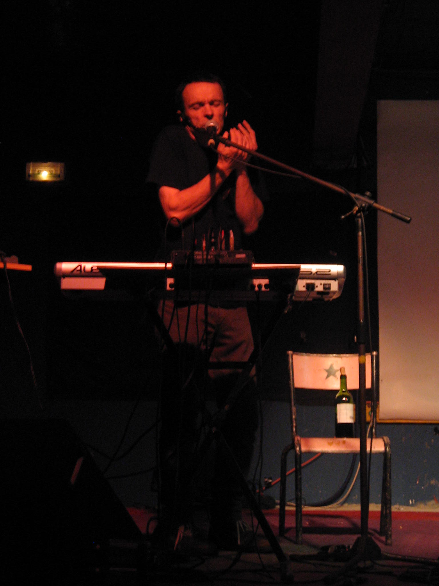 French performer, singer and keyboardist Jean-Louis Costes during a live performance in Dijon, France, june the 5th, 2009.